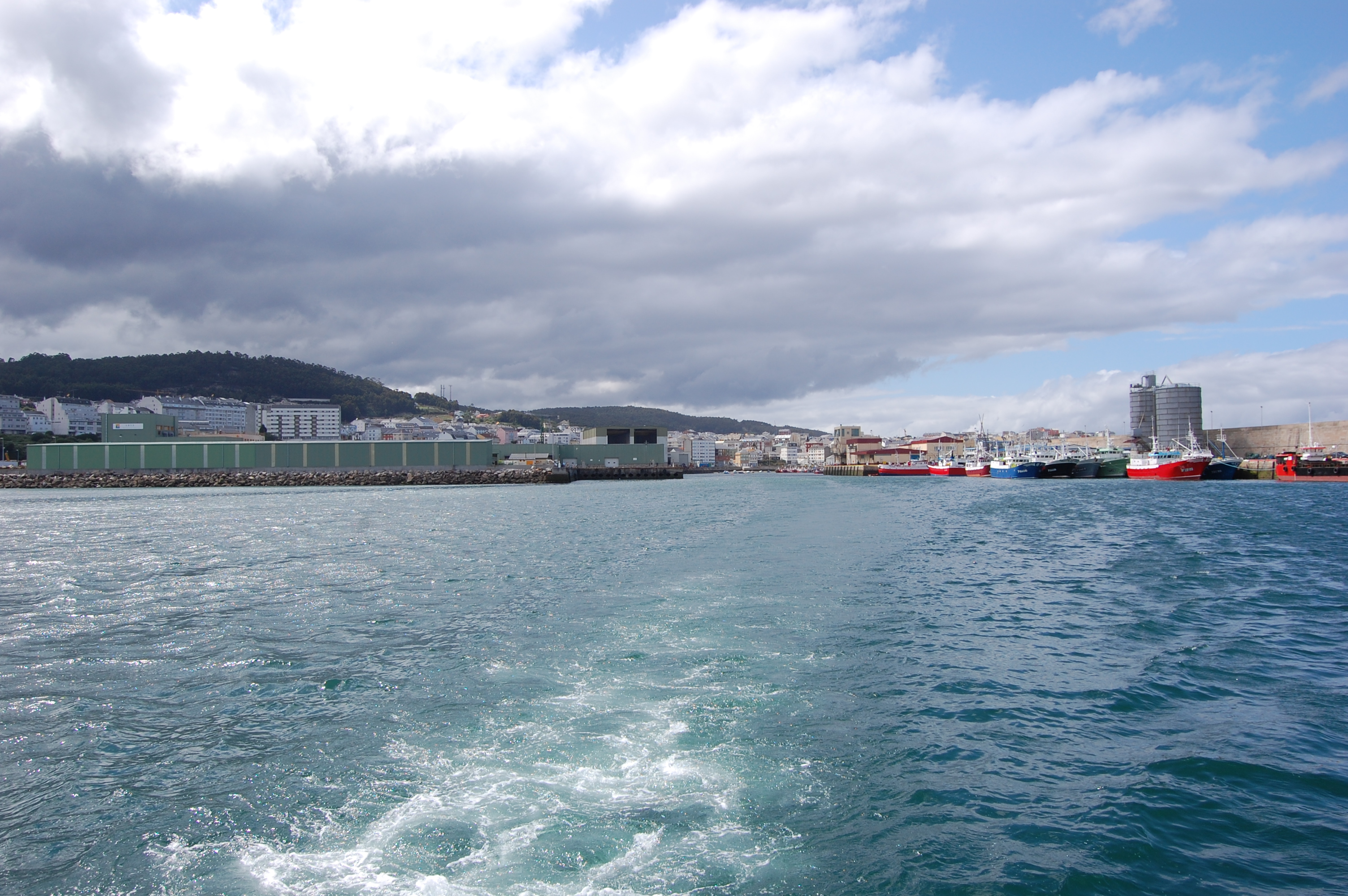 Burela pearl